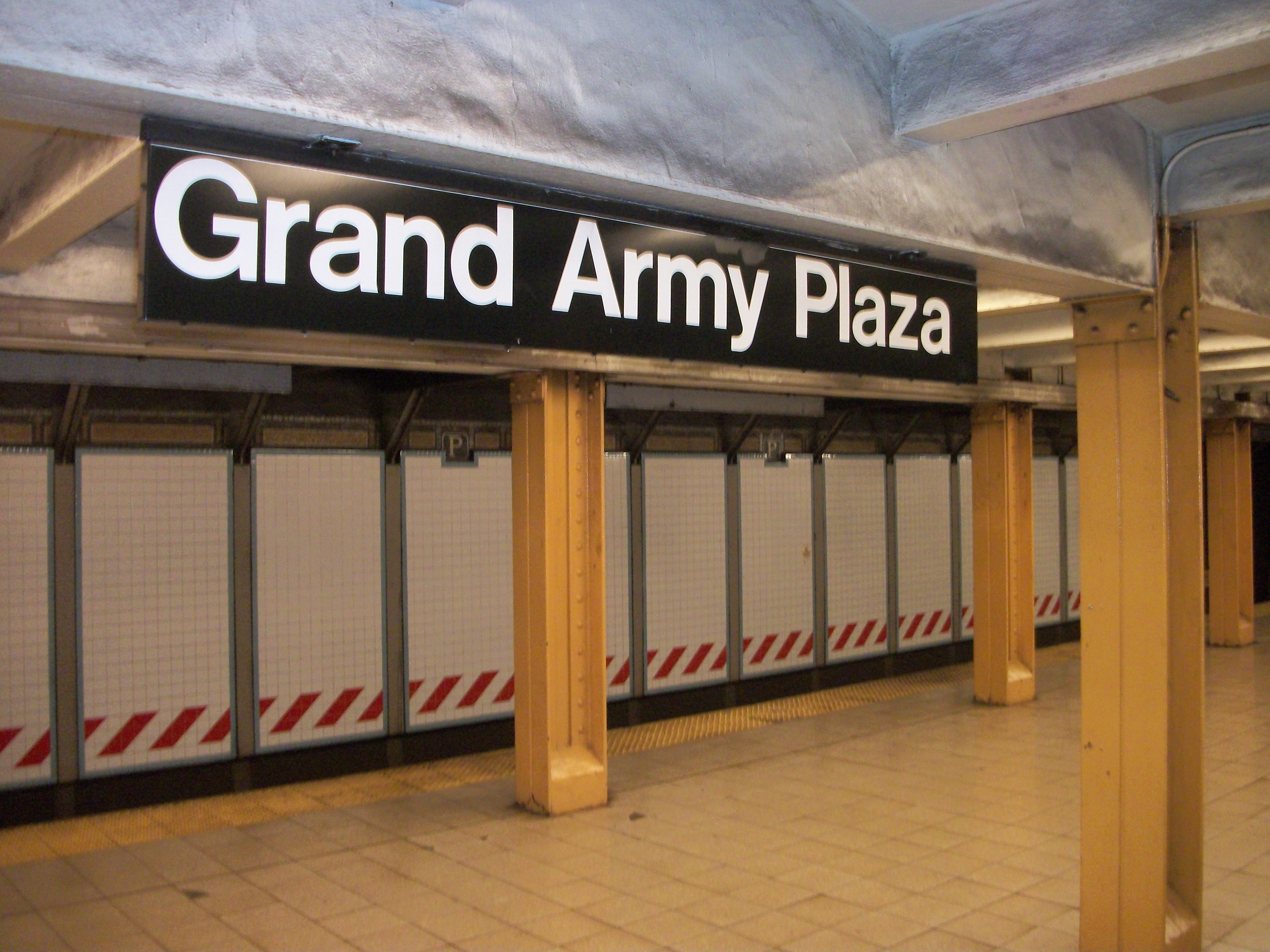 A large overhead Helvetica sign over the platform at Grand Army Plaza (IRT Eastern Parkway Line) station in Brooklyn, New York City. I saw a sign like this on another website, and I just had to capture one of my own.